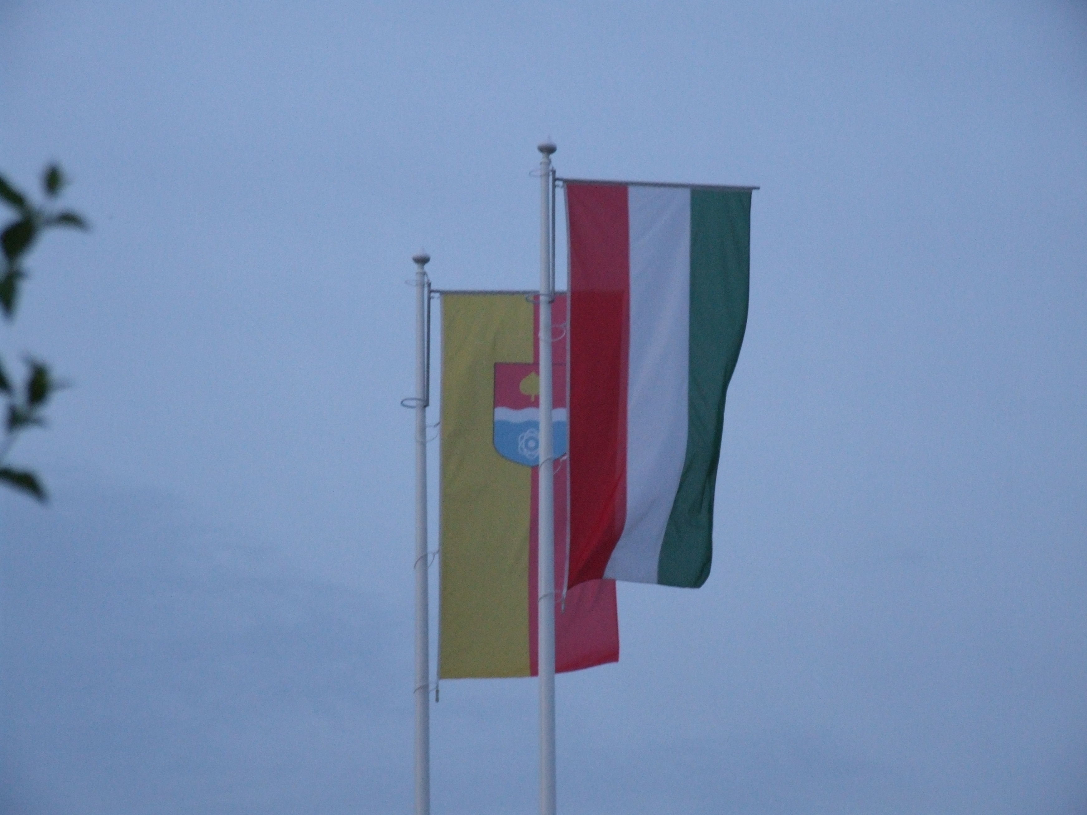 Flag of Hungary and flag of Paks